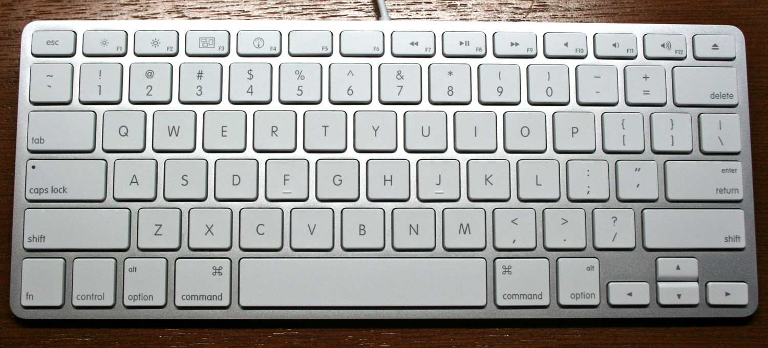 A1242 Apple Keyboard shipped with the Apple iMac.